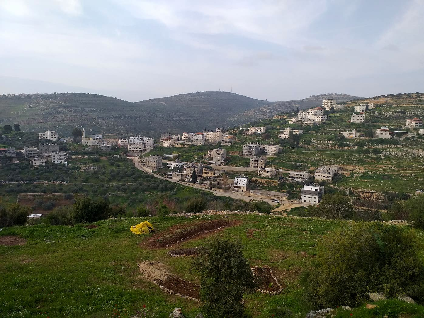 Ein Qiniya